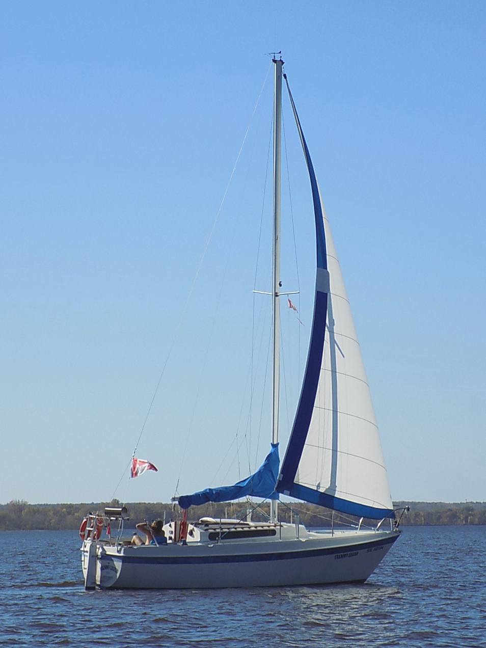 A Tanzer 8.5 sailboat named *Unknown Legend*.